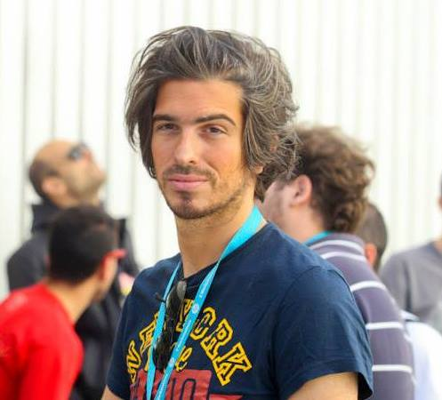 Alexis Wajsbrot at Trojan Horse was a Unicorn Film Festival 2013